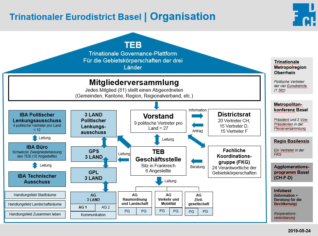 Organigramm des Trinationalen Eurodistrict Basel